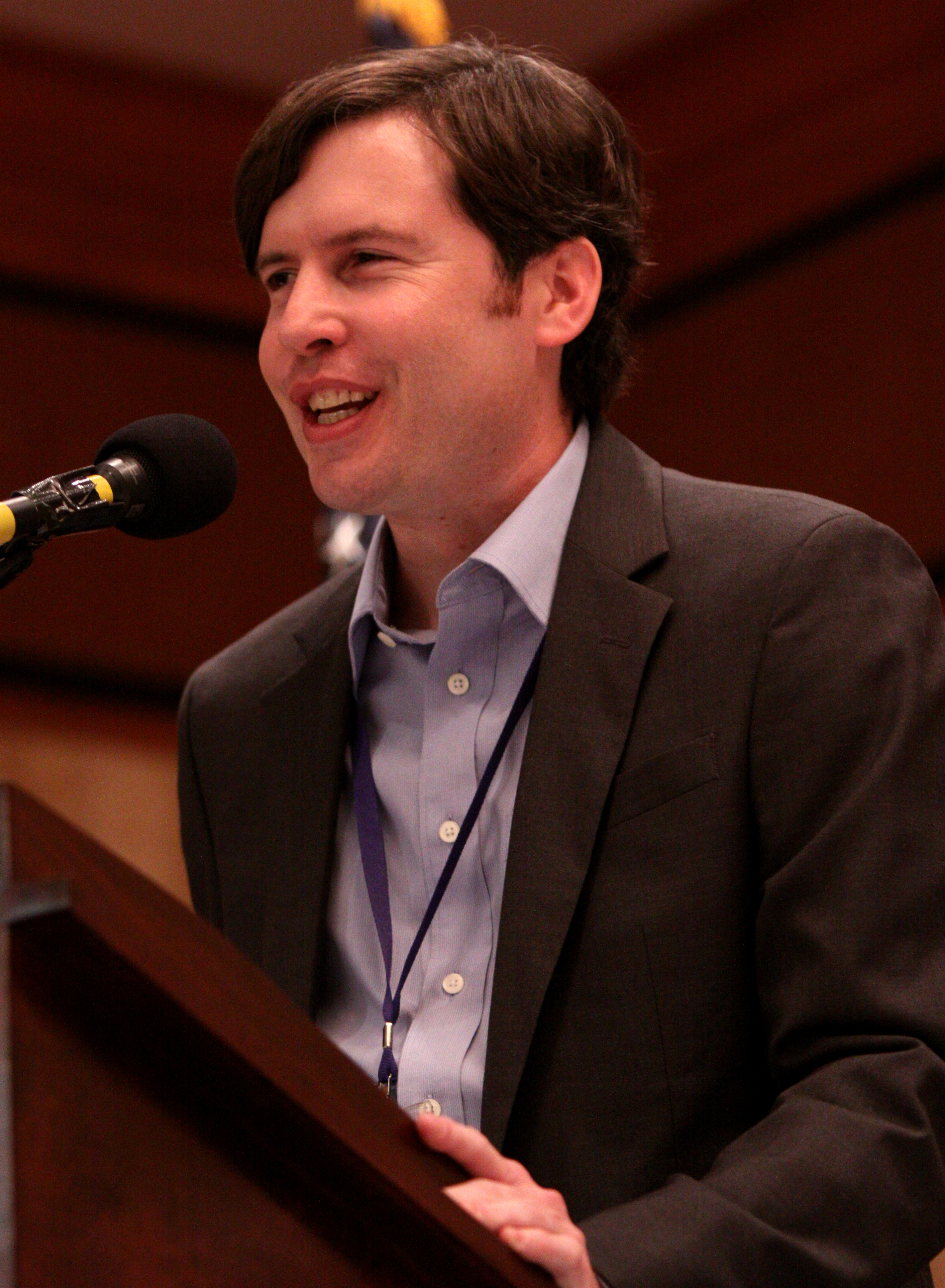 Jack Hunter speaking at the 2011 CPAC in Washington, D.C. on February 11, 2011.